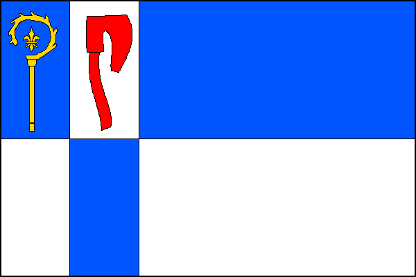 Municipal flag of Vražkov village, Litoměřice District, Czech Republic.